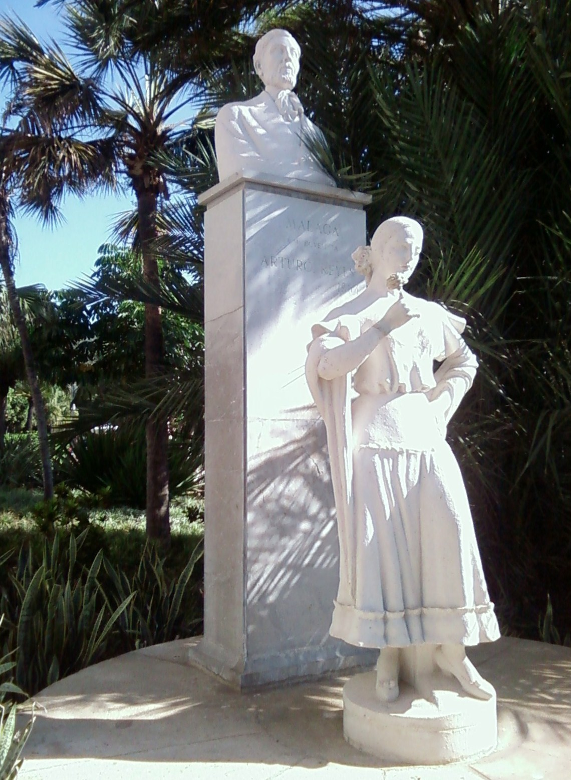 Monument to Arturo Reyes, Málaga Park, Spain